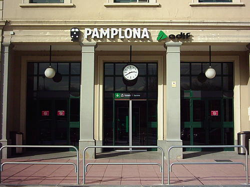 Iturria